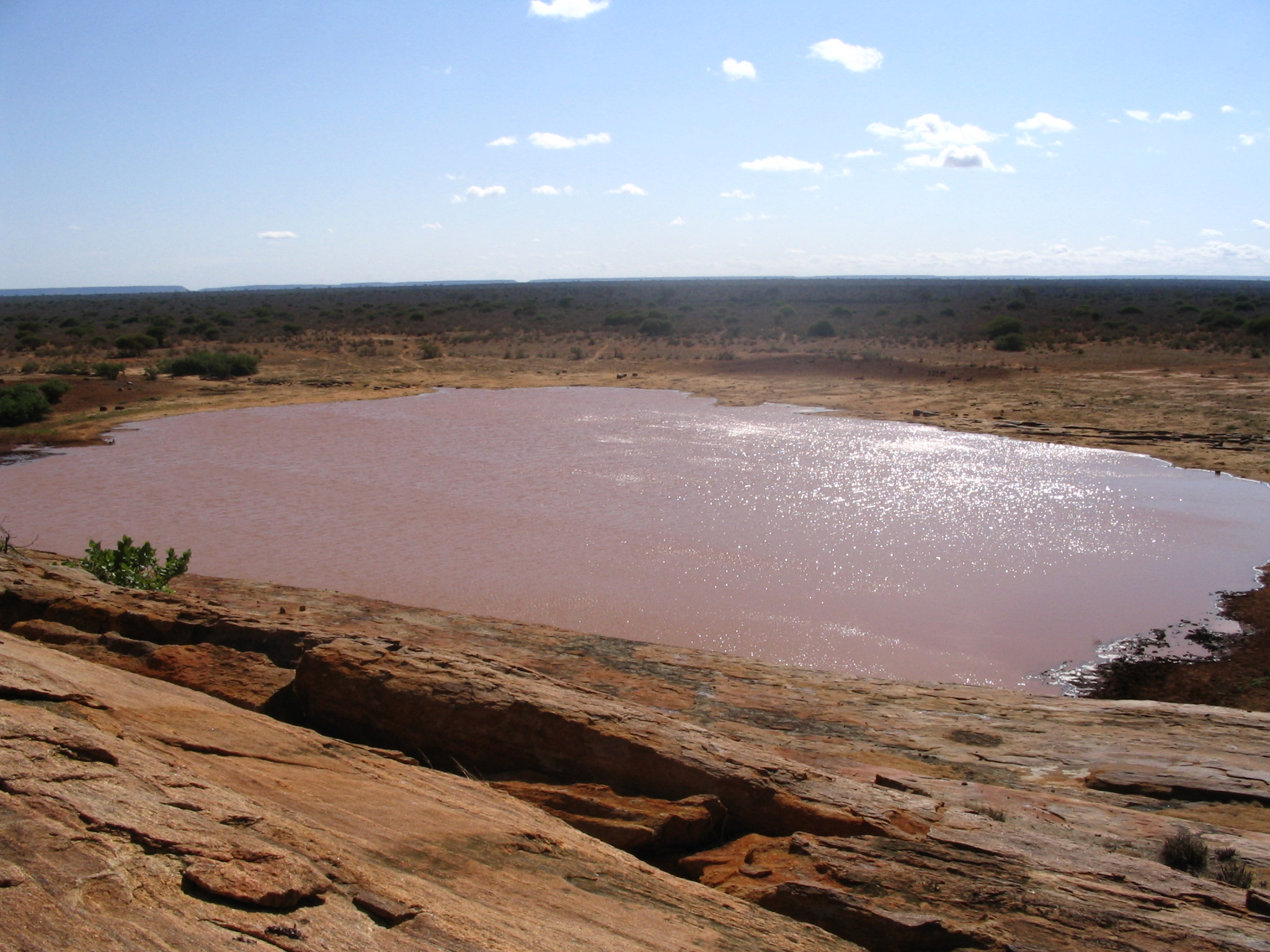 Viewpoint from the top of Mudanda Rock in Tsavo East National Park, Kenya. A lake is shown in the foreground with the surrounding savanna in the distance.